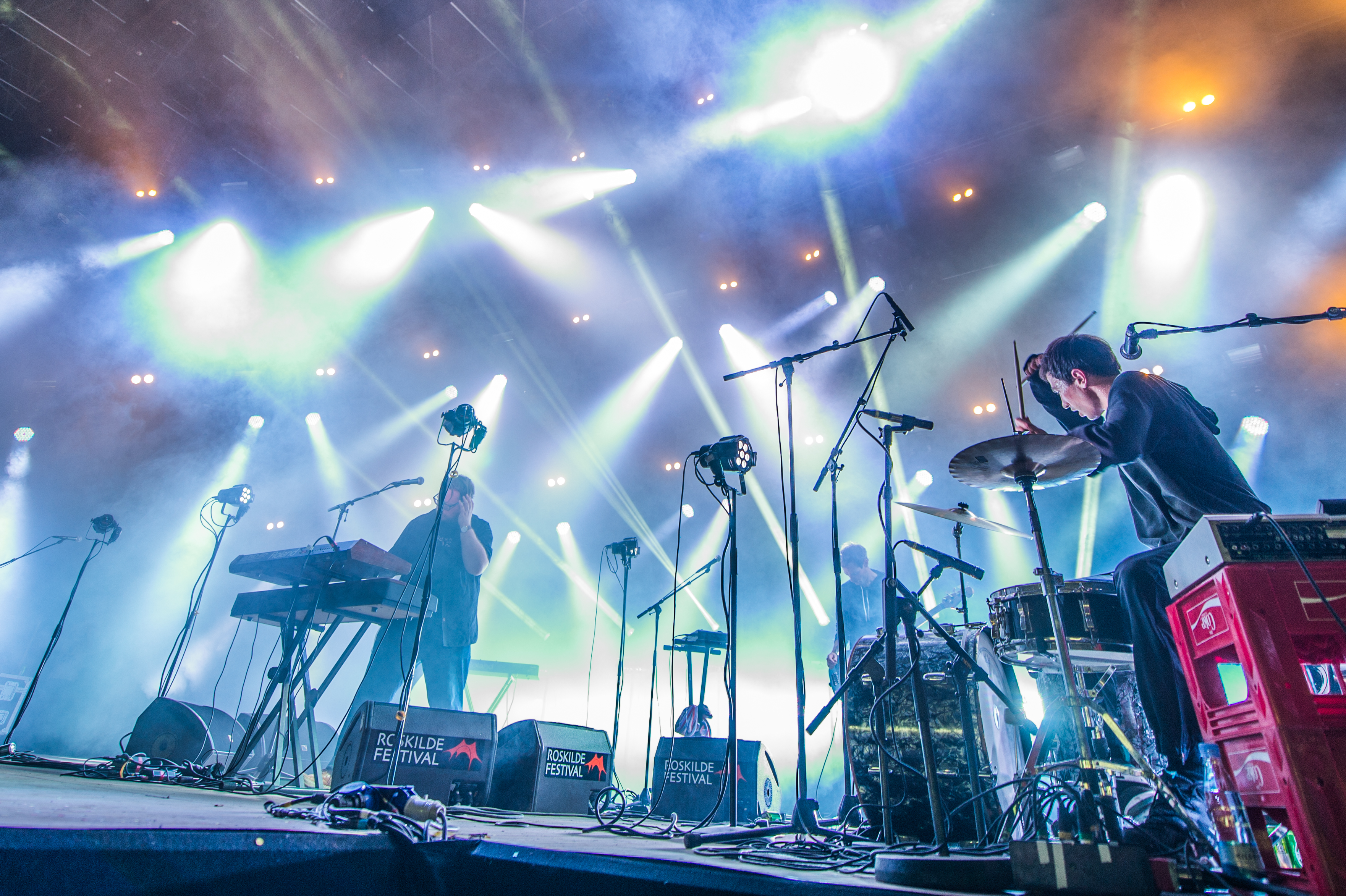 I Got You On Tape performing on Roskilde Festival 2012. Photo by Bill Ebbesen